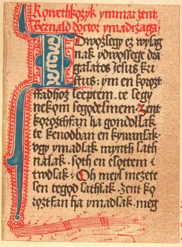 43rd page of the Czech-Codex, 1513